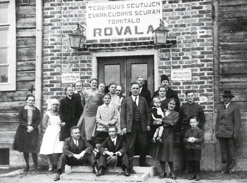 Photograph of the Finnish priest Aaro Tolsa (1895–1951) in front of Rovala (a Settlement house in Rovaniemi) with personnel.